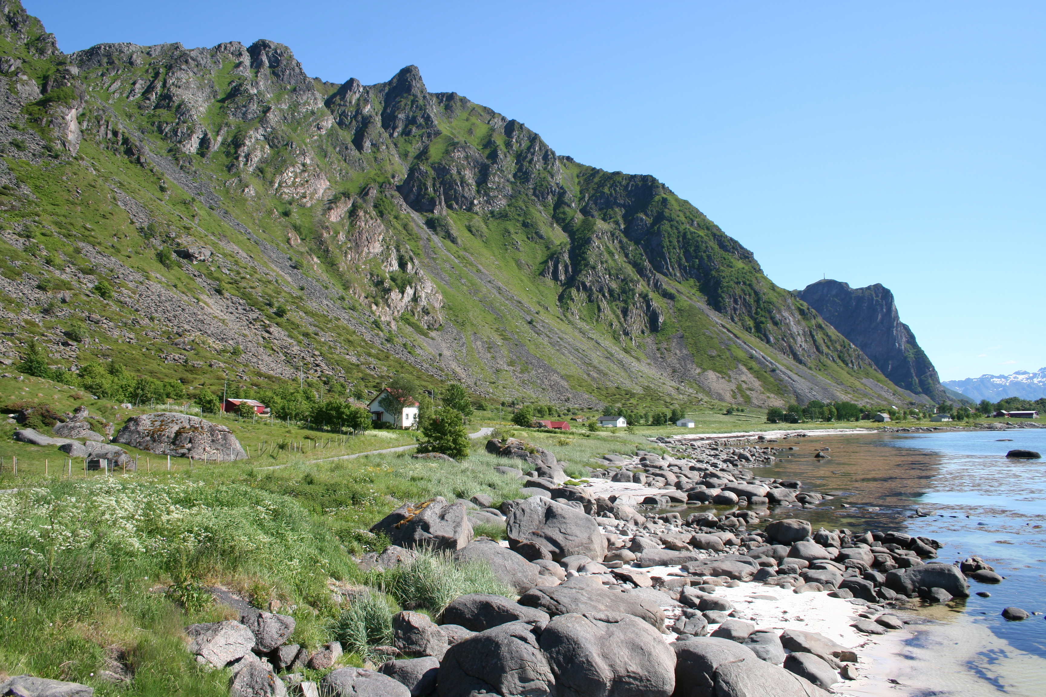 Taen in Hadsel, Norway, seen towards the southeast. This photo was taken by me